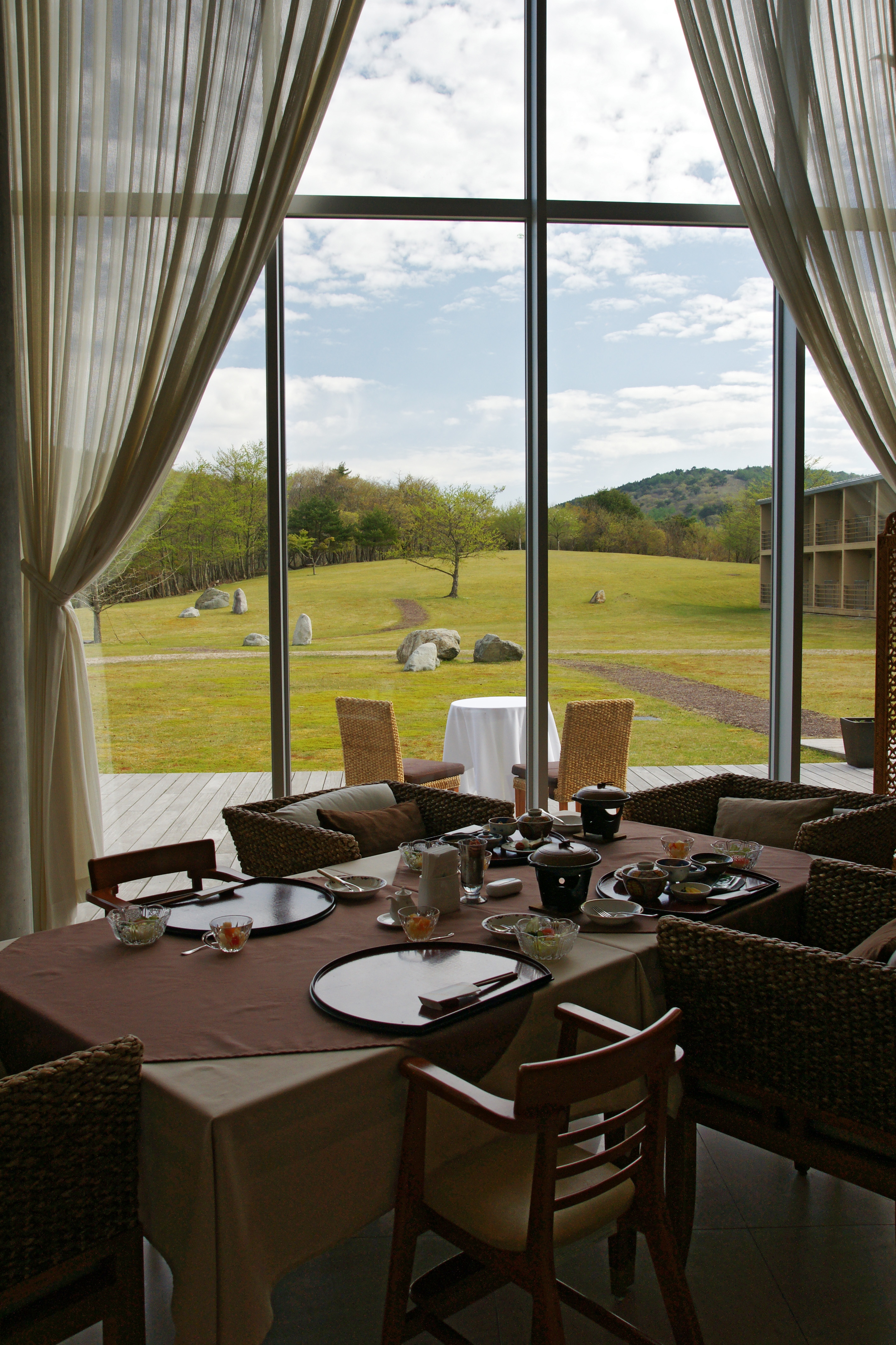 Relaxia Mineyama Kogen Hotel in Mineyama highlands, Kamikawa, Hyogo prefecture, Japan.